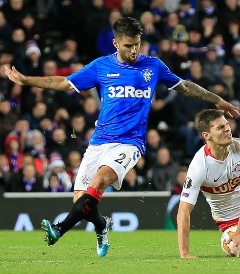 Daniel Candeias